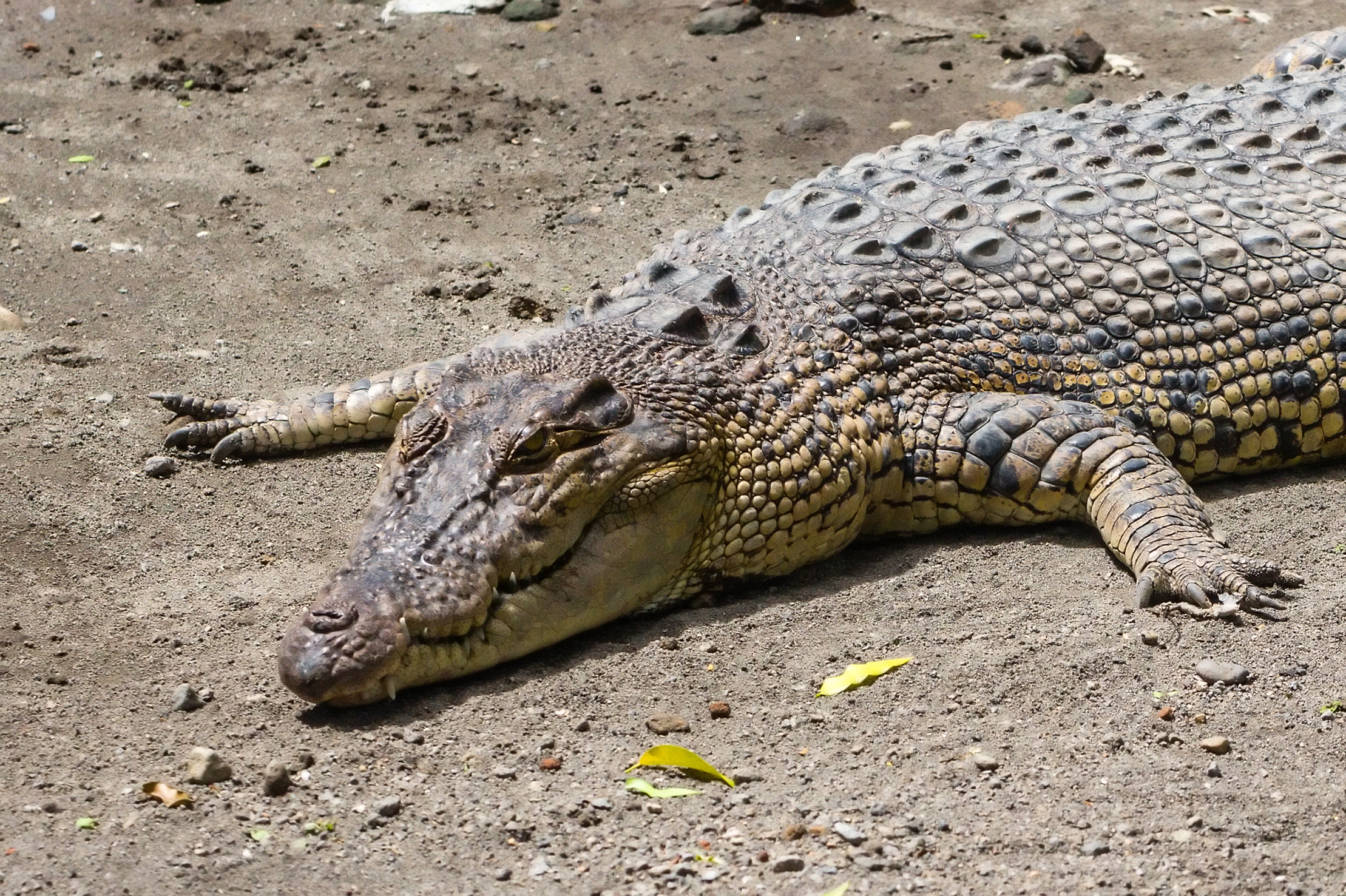 Saltwater crocodile (Crocodylus porosus), Gembira Loka Zoo, 2015-03-15